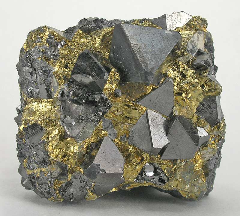 Chalcopyrite, Magnetite Locality: Aggeneys, Northern Cape Province, South Africa (Locality at ) Size: small cabinet, 7 x 6 x 4 cm MAGNETITE in Chalcopyrite I had never heard of anything from this mine except a few strangely formed rhodochrosites, until Charlie's Collection surfaced. He has a whole suite of strange sulfide combinations from this locality, for example this one featuring sharp alpine-quality magnetite in contrasting chalcopyrite matrix. The largest magnetite is 2 cm across. This is the best matrix specimen out of the whole lot of about 2 flats, which he had accumulated over the years from a worker at the mine. Ex. Charlie Key Collection.